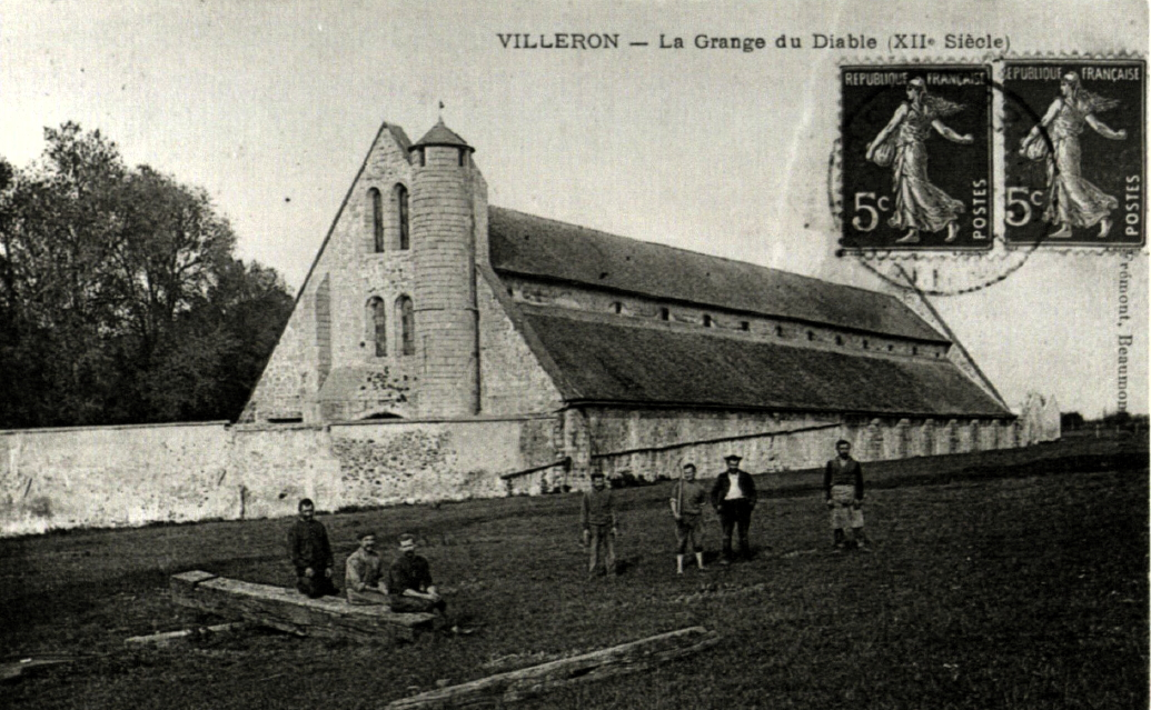 Postcard of the Barn of Vaulerent, Villeron, former Seine-et-Oise, now Val-d'Oise, France